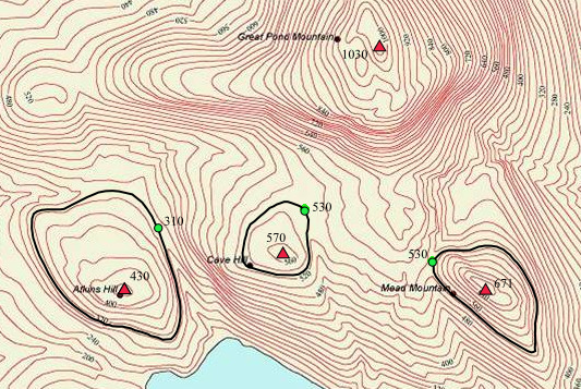 Map showing the topographic prominence of three peaks near Great Pond Mountain, Maine